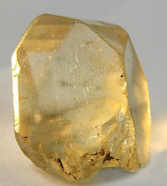 Topaz Locality: Jos Plateau, Plateau State, Nigeria (Locality at ) Size: 2.6 x 1.6 x 1.5 cm. This is an old-time African topaz specimen accompanied by an old Hugh Ford label. It is really a super crystal, complete and undamaged all around, with the contact on the bottom naturally healed, probably from spending time in a stream bed. The crystal is of champagne color, and the faces have a wonderful silky luster. Weighs 15 grams.